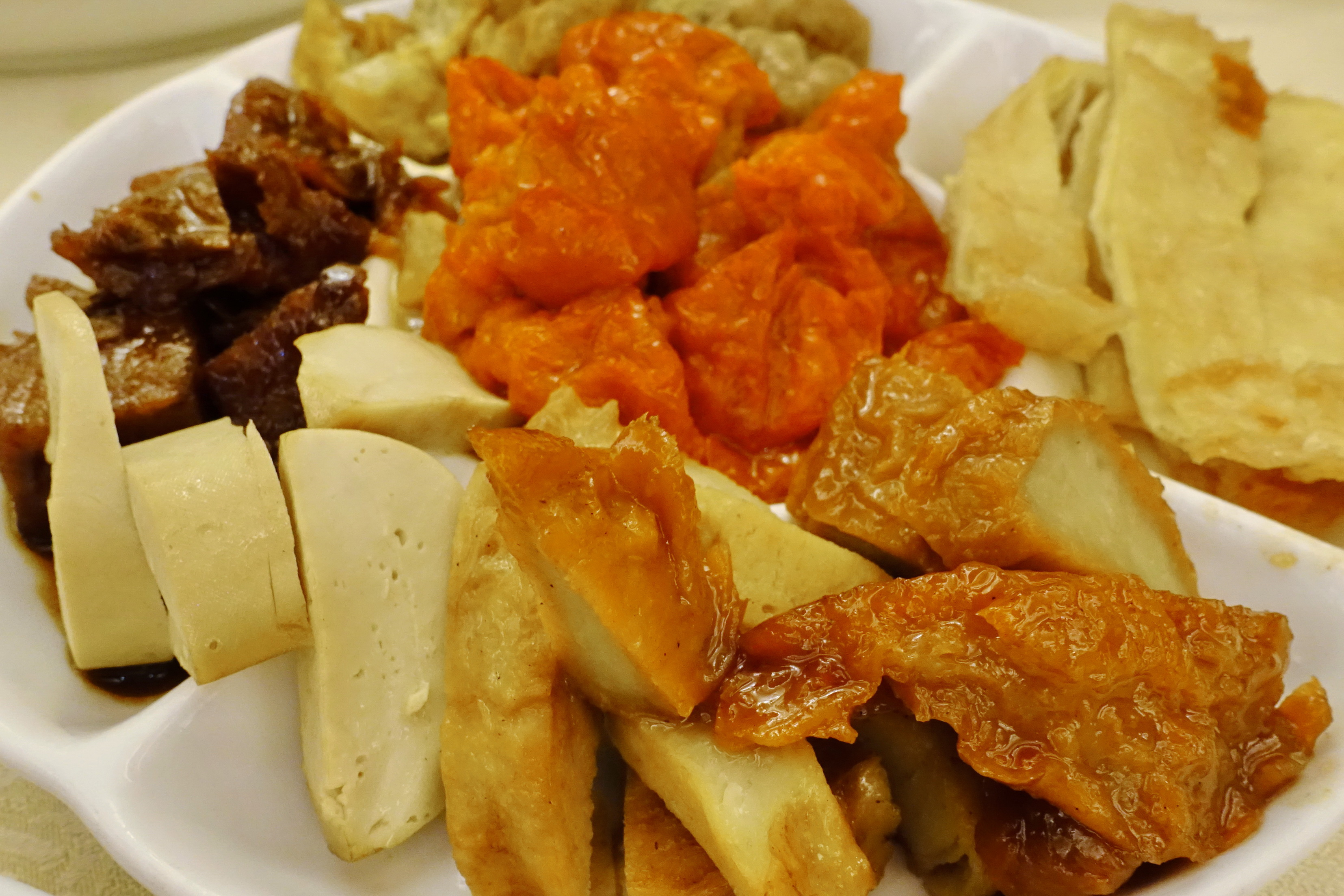 Assorted vegetarian mock meat，Hong Kong style.